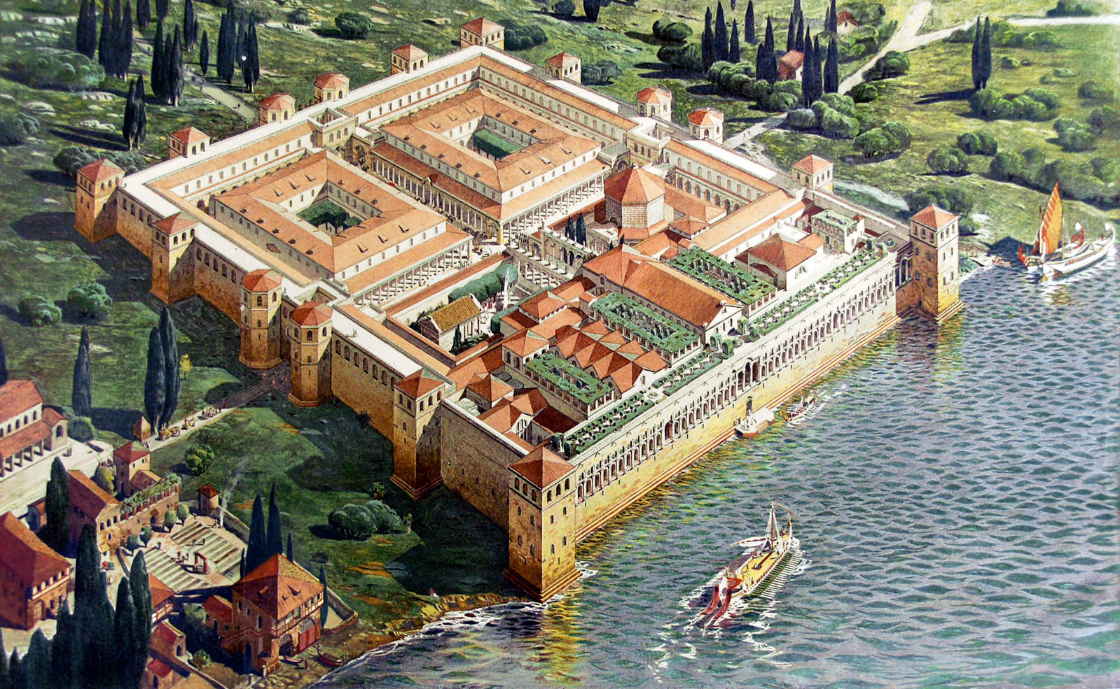 Illustration depicting the Palace of the Roman Emperor Diocletian in its original appearance.